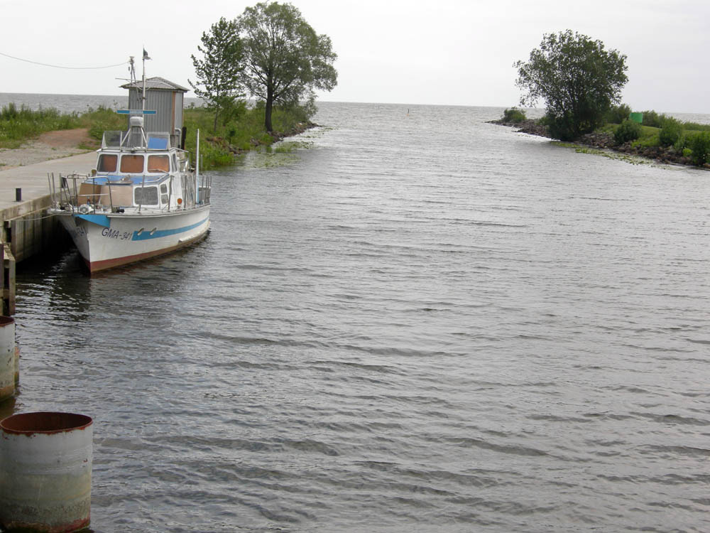 Harbor at Mustvee, Estonia. July 25, 2007